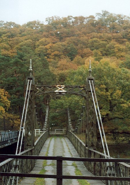 Old Bridge, Elan Valley. This bridge, no longer in use, crosses the river Elan